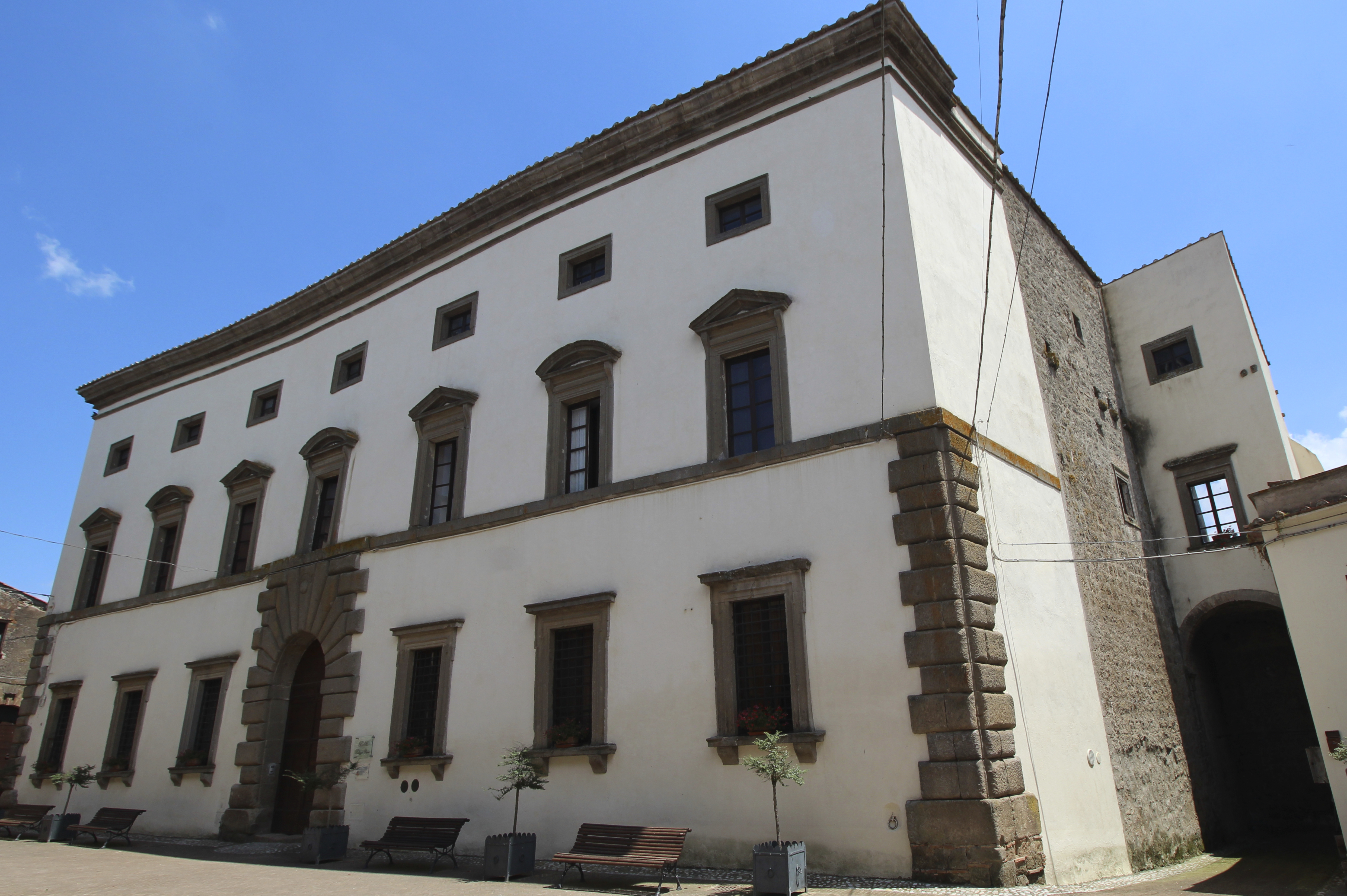 Palazzo Orsini, Mugnano in Teverina, hamlet of Bomarzo, Province of Viterbo, Lazio, Italy